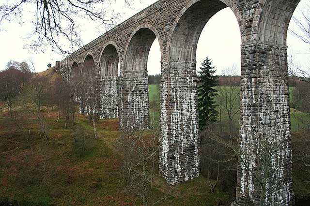 The awesome Divie viaduct.. The Divie viaduct; a monument to the architect's good taste and the builder's skills.